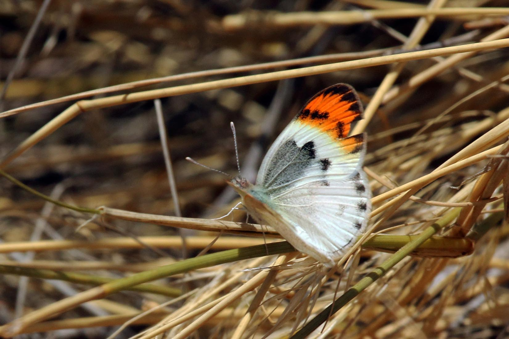 Scarlet tip butterfly (Colotis danae annae) male, Tswalu Kalahari Reserve, South Africa